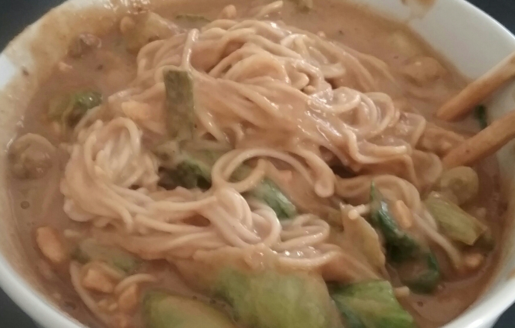 A homemade bowl of Dandan noodles (擔擔麵) of Sichuan cuisine (dried version). The recipe is from the cookbook “Chinese Rice & Noodles, with Appeitizers, Soups, & Sweets” by Su-Huei Huang & Mu-Tsun Lee. Published by Wei-Chuan Publishing (Sept. 2005, Taiwan).